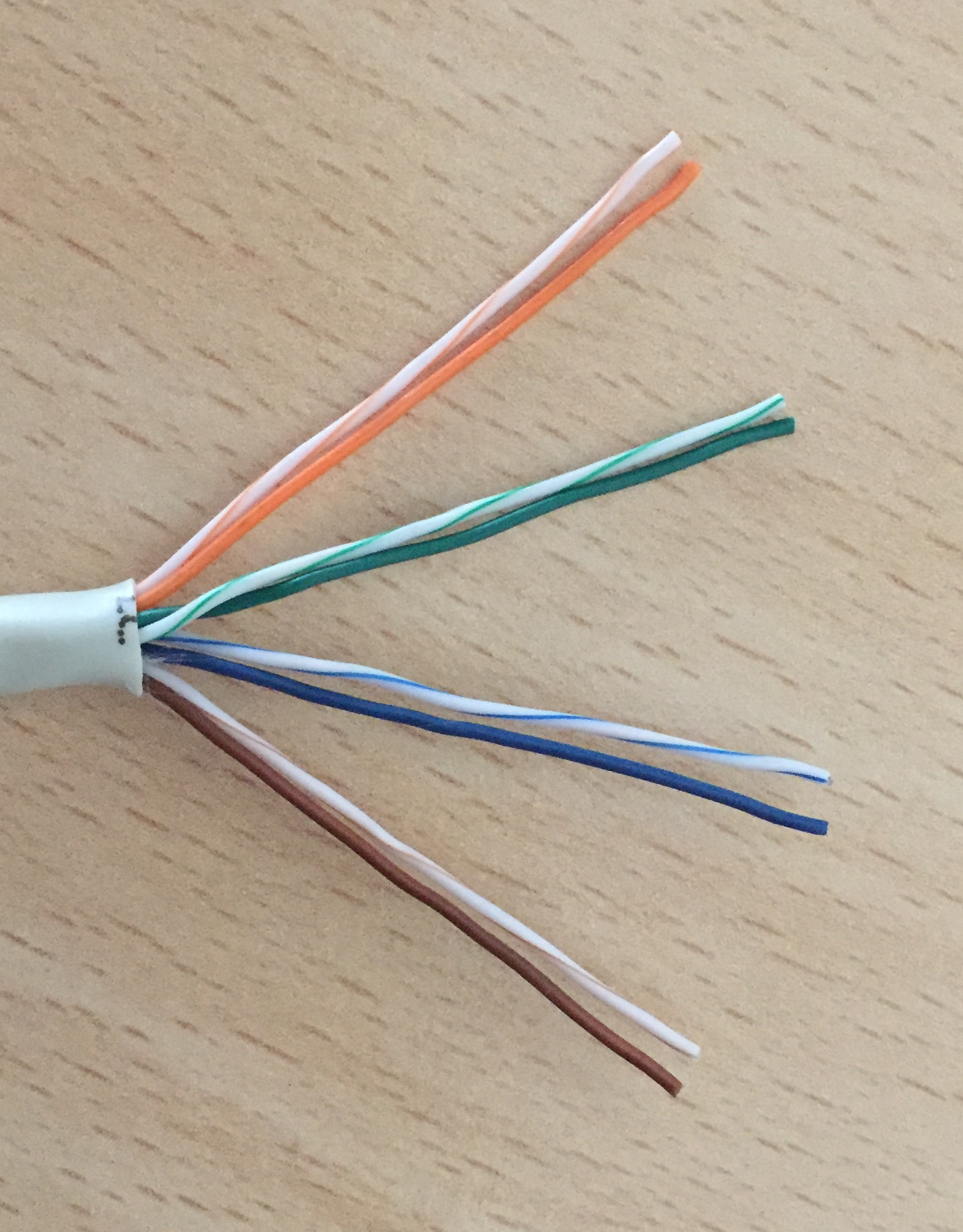 Do it yourself. Make UTP (Unshielded Twisted Pair) and connect RJ45 connector. Step 3: flatten en untwist cables.